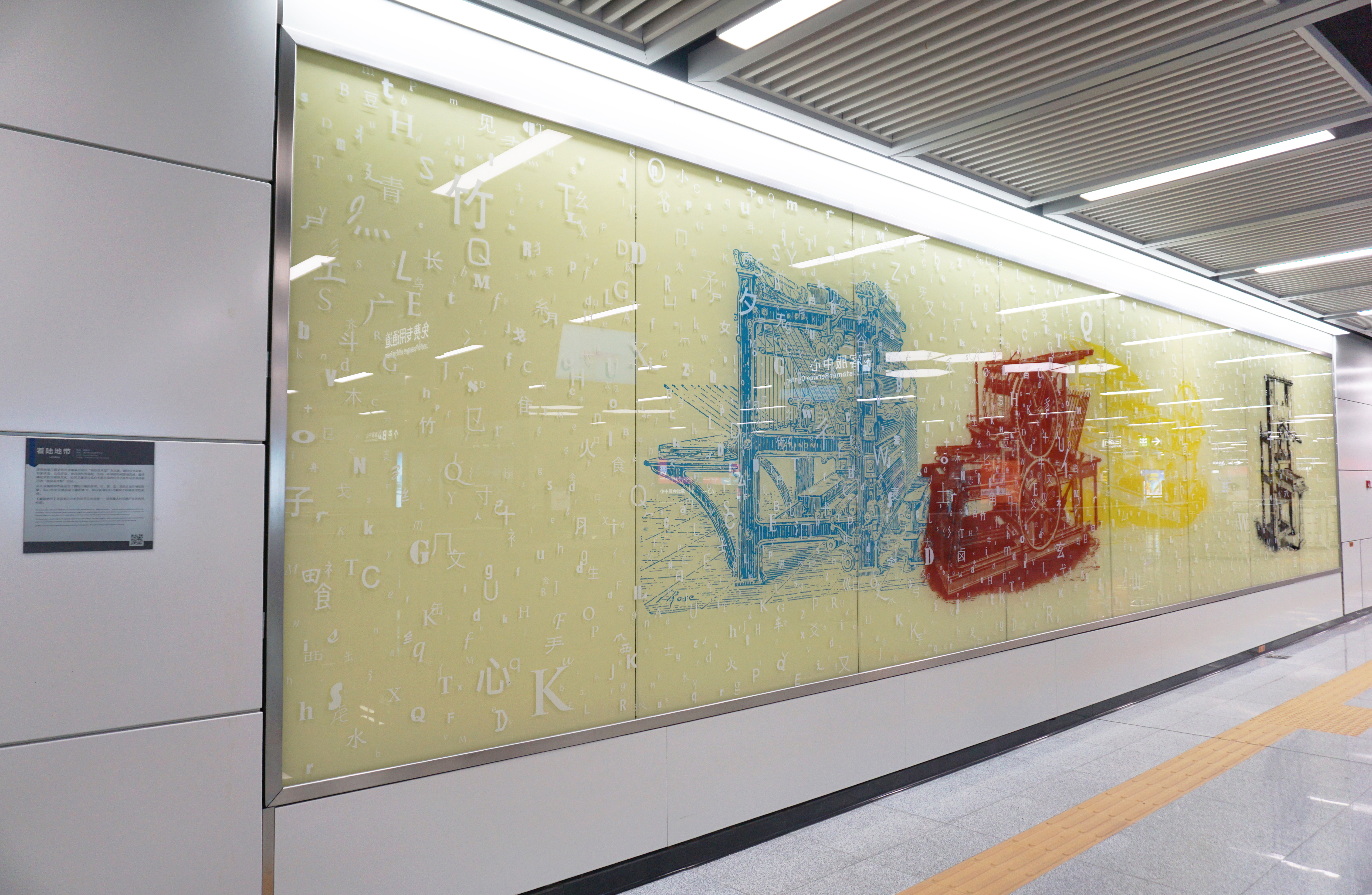 Bagualing Station in Futian District, Shenzhen.